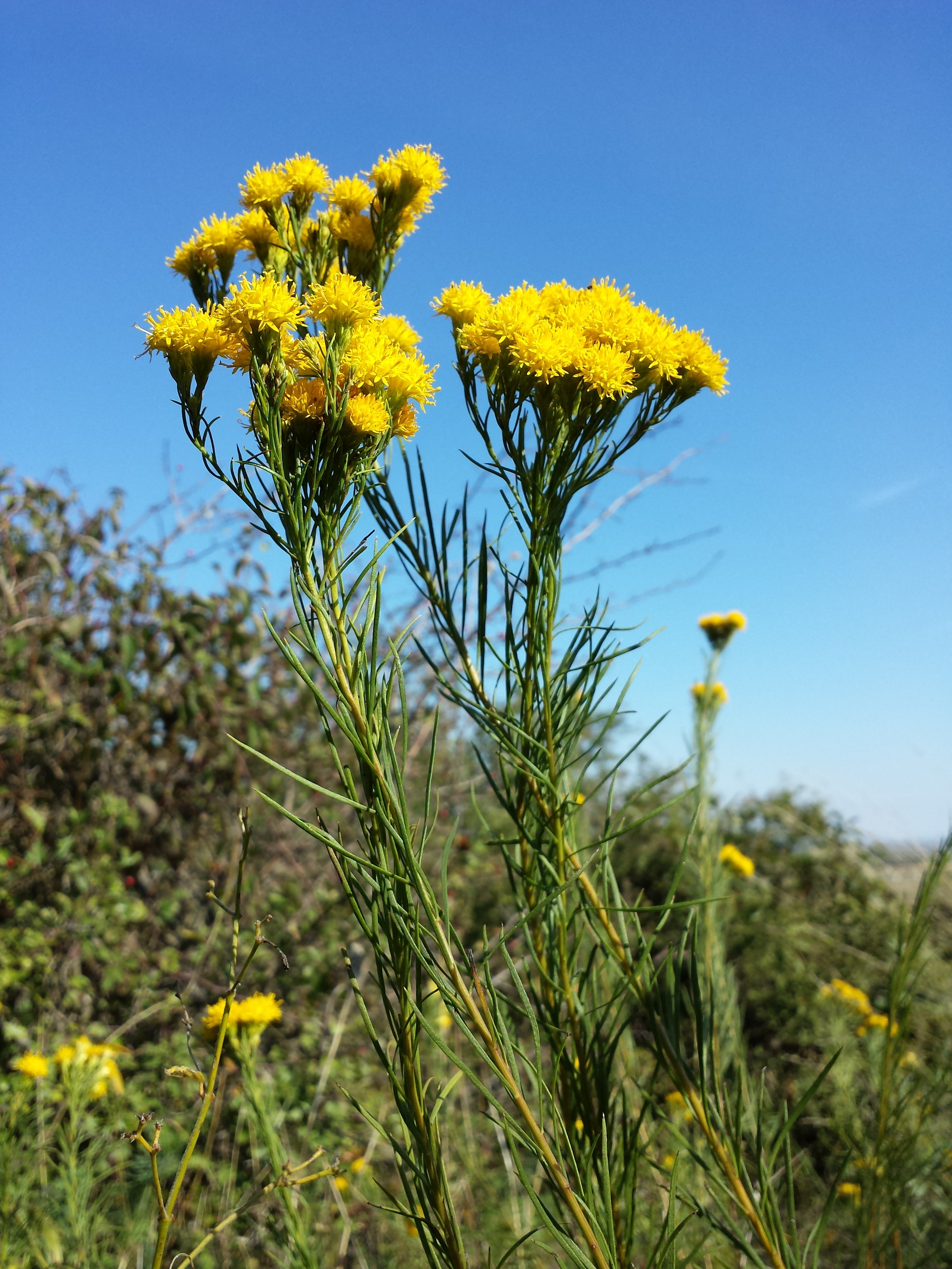 Habitus Taxon: Galatella linosyris (sensu Fischer et al. EfÖLS 2008, det. M. A. Fischer 2013-09-28) Location: Alte Schanzen (object XII), Vienna-Floridsdorf - ca. 220 m a.s.l. Habitat: dry grassland